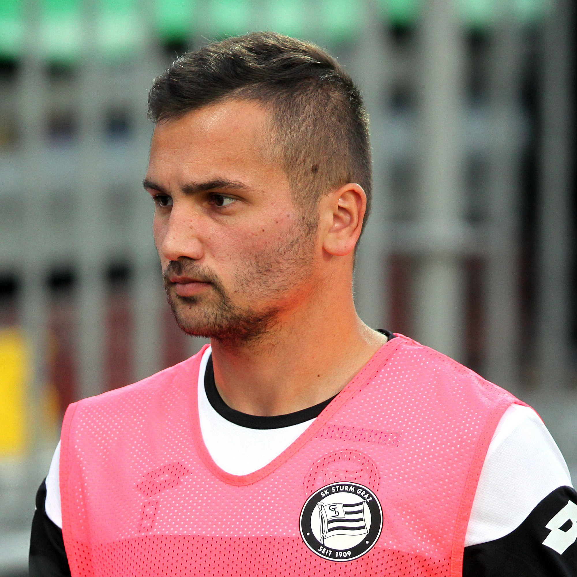 Match of the Austrian Football Bundesliga – SV Mattersburg (green shirts) vs. SK Sturm Graz (white shirts) on 2015-09-13 in Pappelstadion, Mattersburg – The photo shows Anel Hadzic (SK Sturm Graz)